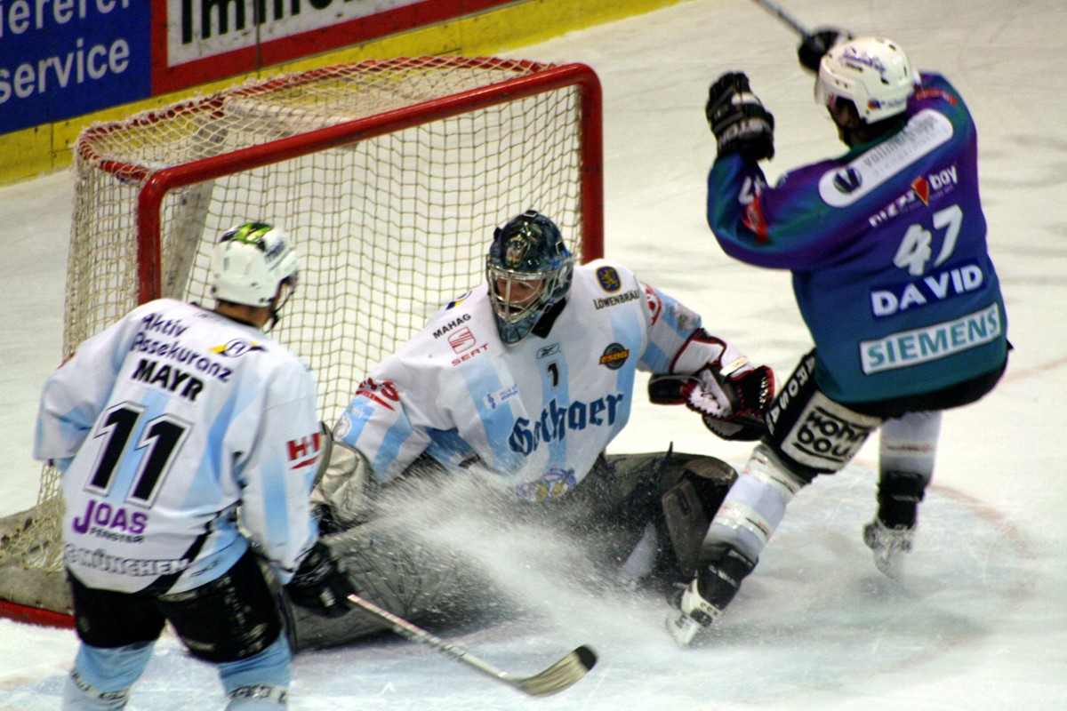 Leonhard Wild, ice hockey goaltender of the EHC Munichtries to stop shot of #47. It can't be seen in this picture, but #47 scores in this second. I think, it's a nice picture anyway. Picture was taken with Canon EOS 350D.